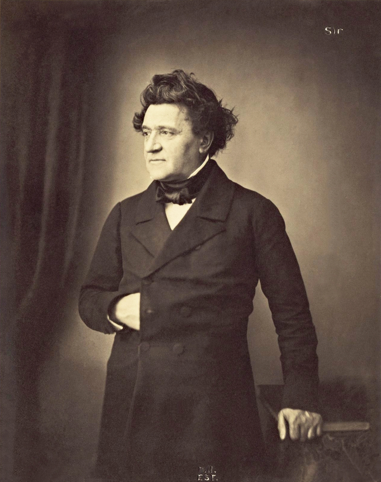 Paul Abadie junior, (1812-1884), French architect and building restorer. Cropped file.